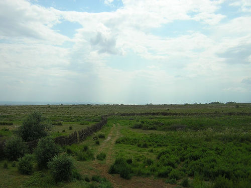 Eurasian Steppe in Altyn Emeil National Park — within Almaty Province, Kazakhstan.